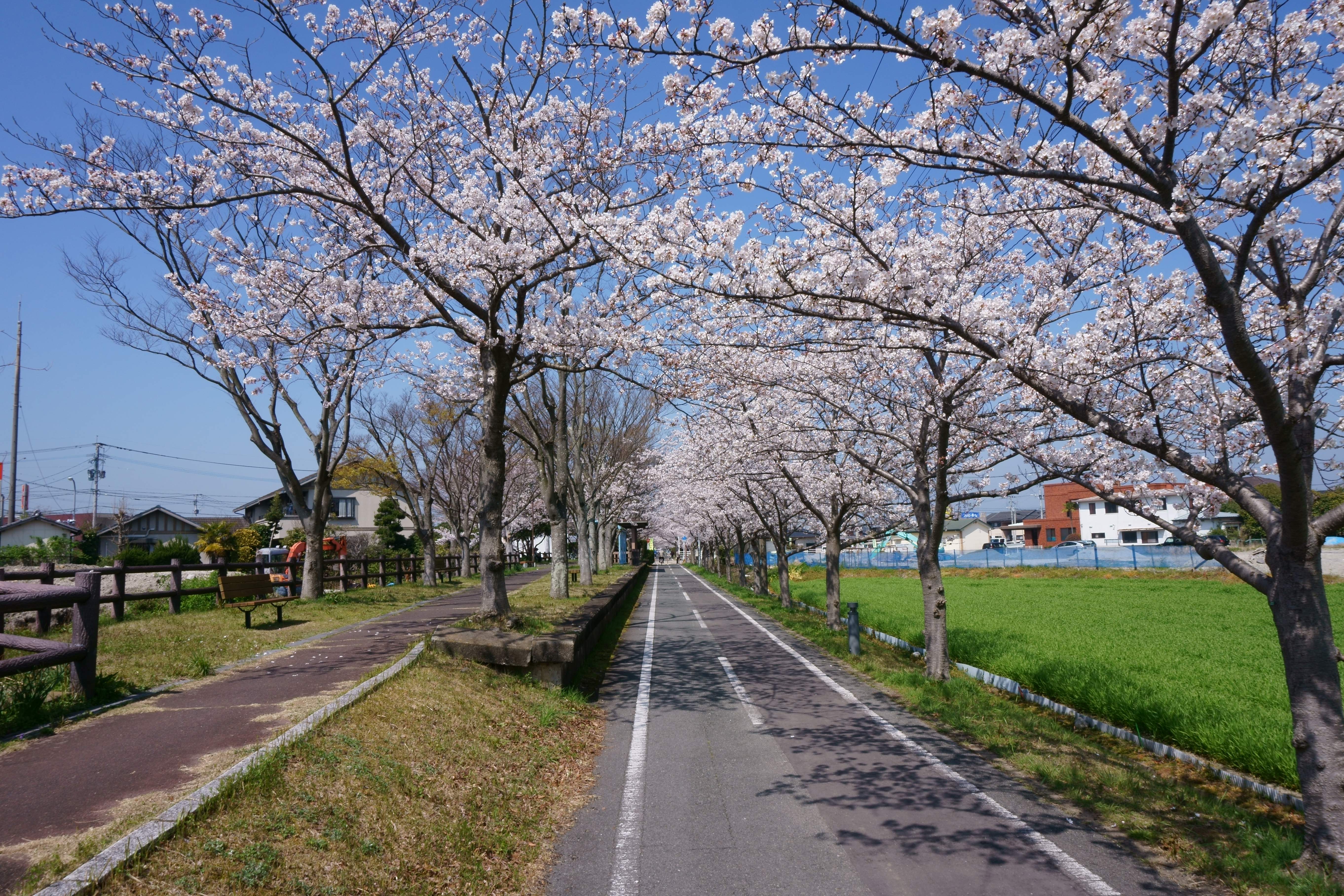 Sakura blooming at side of Jofuku Cycle Road , near Former Mitsunori Station in Kitakawasoemachi Mitsunori, Saga city.